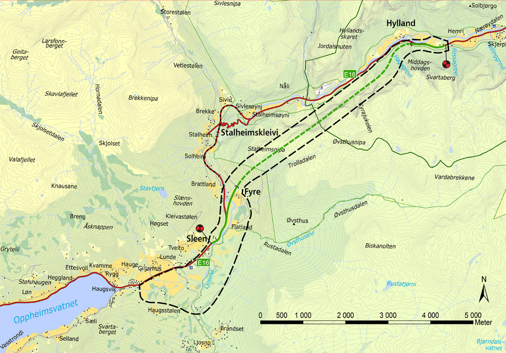 Map of proposed tunnel bypassing Stalheim on E16 between Voss and Gudvangen.